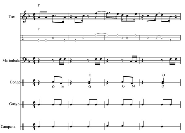 This is an example of an ensemble playing Kiriba